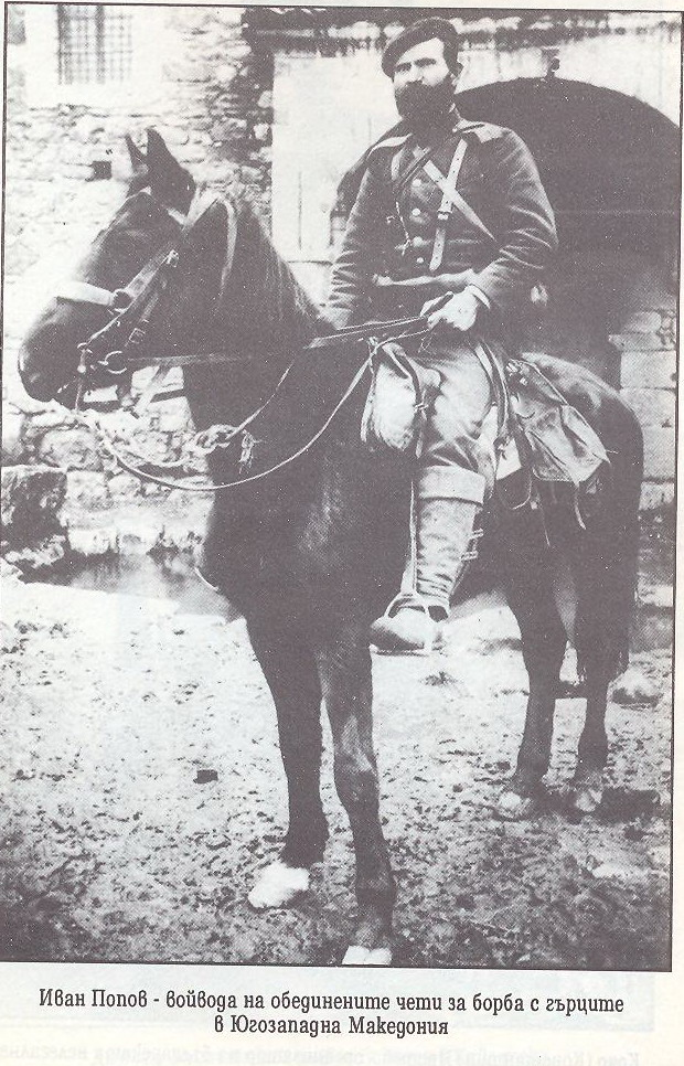 Portrait of Ivan Popov, Kostur revolutionary and bulgarian officer